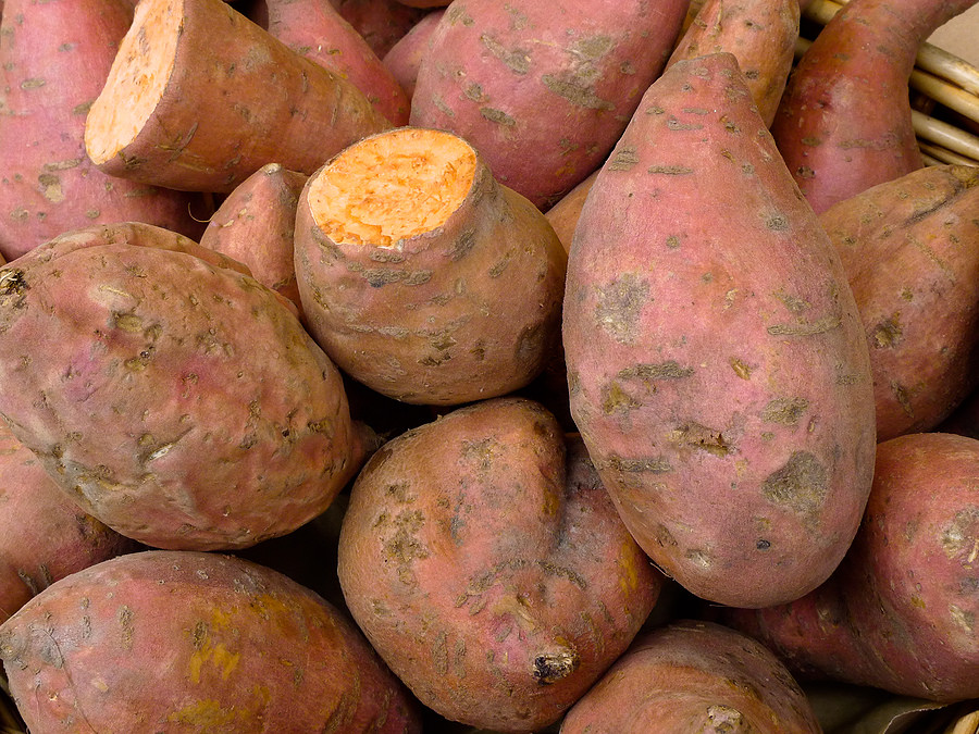 Sweet potatoes close-up